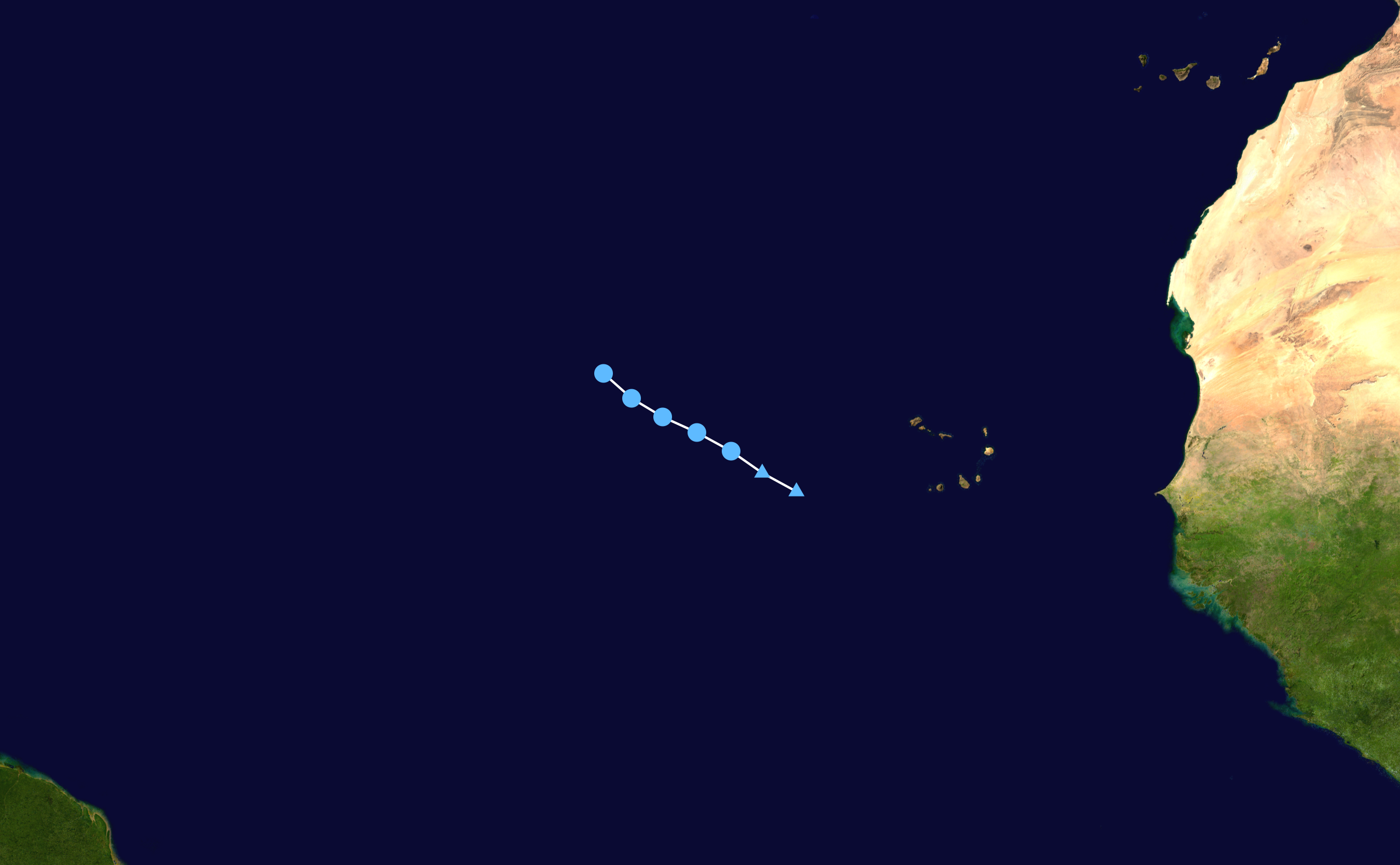 Track map of Tropical Depression Eight of the 2009 Atlantic hurricane season. The points show the location of the storm at 6-hour intervals. The colour represents the storm's maximum sustained wind speeds as classified in the Saffir–Simpson scale (see below), and the shape of the data points represent the nature of the storm, according to the legend below. Saffir–Simpson scale Tropical depression≤38 mph≤62 km/h Category 3111–129 mph178–208 km/h Tropical storm39–73 mph63–118 km/h Category 4130–156 mph209–251 km/h Category 174–95 mph119–153 km/h Category 5≥157 mph≥252 km/h Category 296–110 mph154–177 km/h Unknown Storm type Tropical cyclone Subtropical cyclone Extratropical cyclone / Remnant low / Tropical disturbance / Monsoon depression